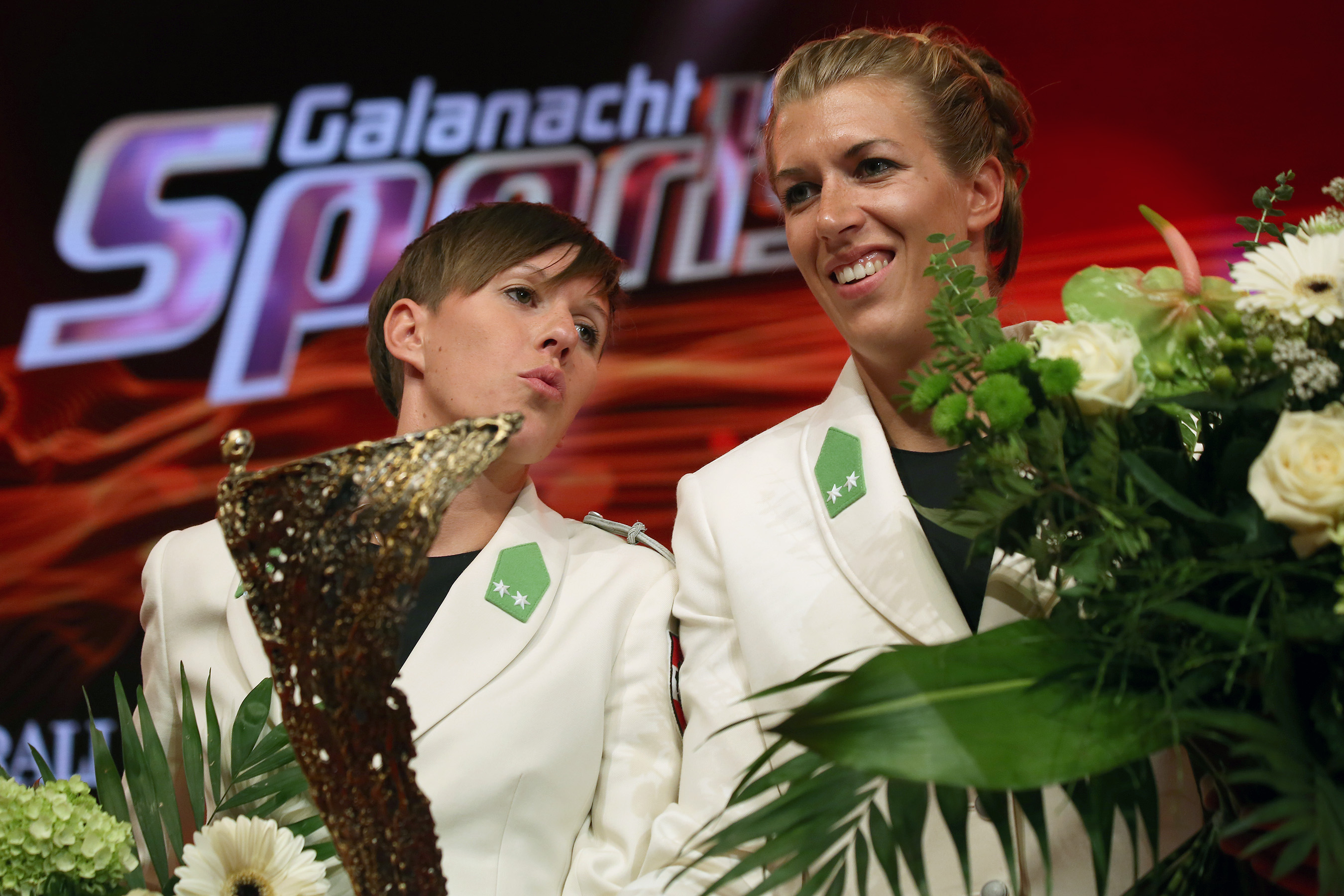 Doris and Stefanie Schwaiger: Team of the Year at the award show for the Austrian Austrian Sportspersonalities of the year 2013 (Austria Center Vienna).